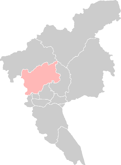 A Blank Map of Guangzhou Map